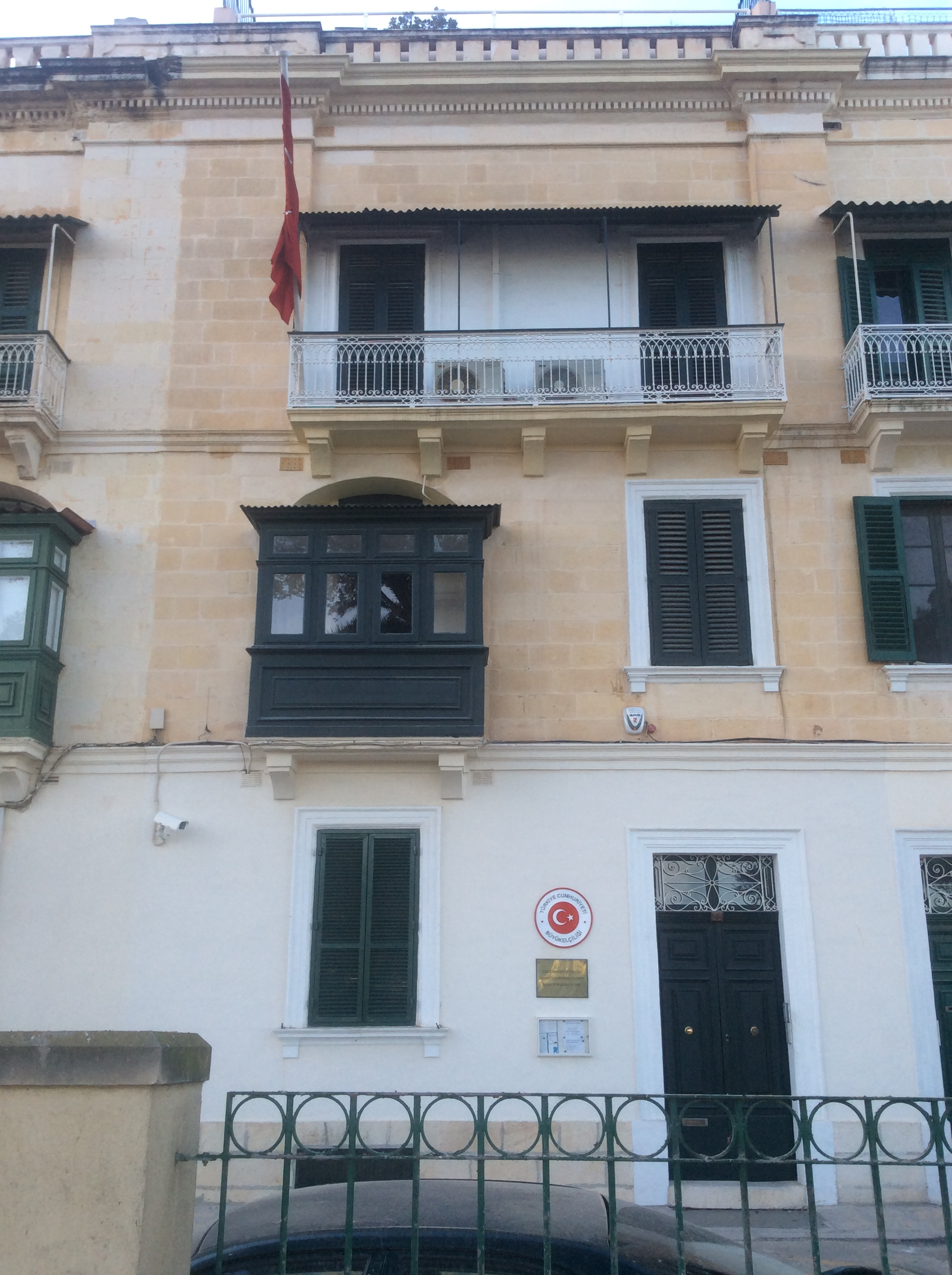 Embassy of Turkey in Malta